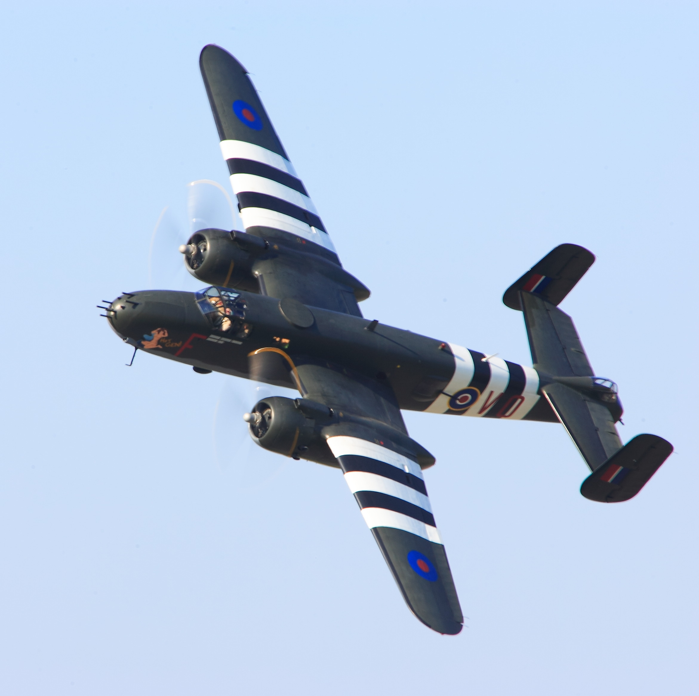 The Canadian Warplane Heritage Museum's North American Mitchell B-25J flying at the 2010 Brantford Airshow in Brantford, Ontario, Canada